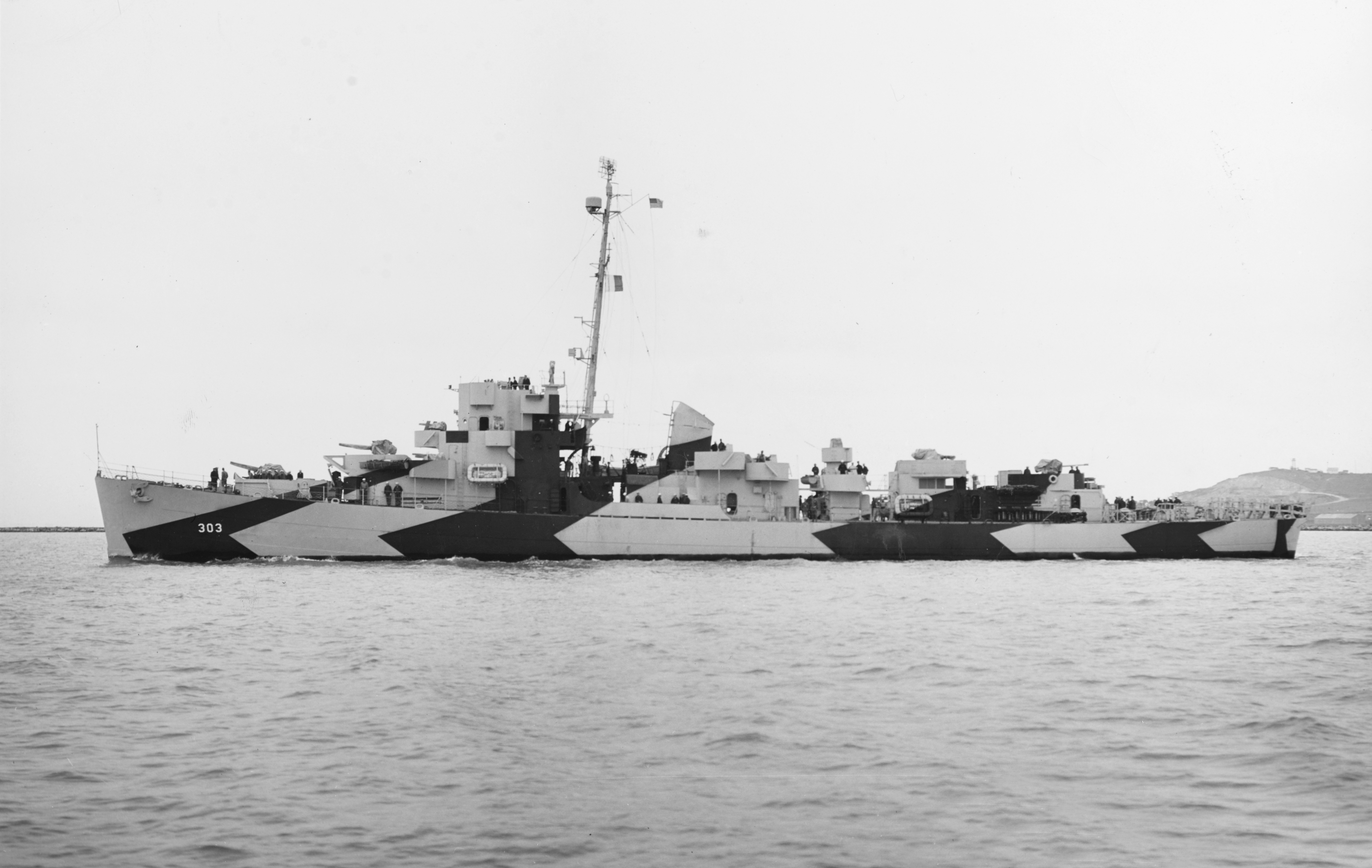 The U.S. Navy destroyer escort USS Crowley (DE-303) underway off the Mare Island Naval Shipyard, California (USA), on 2 April 1944. She is painted in Camouflage Measure 32, Design 21D.